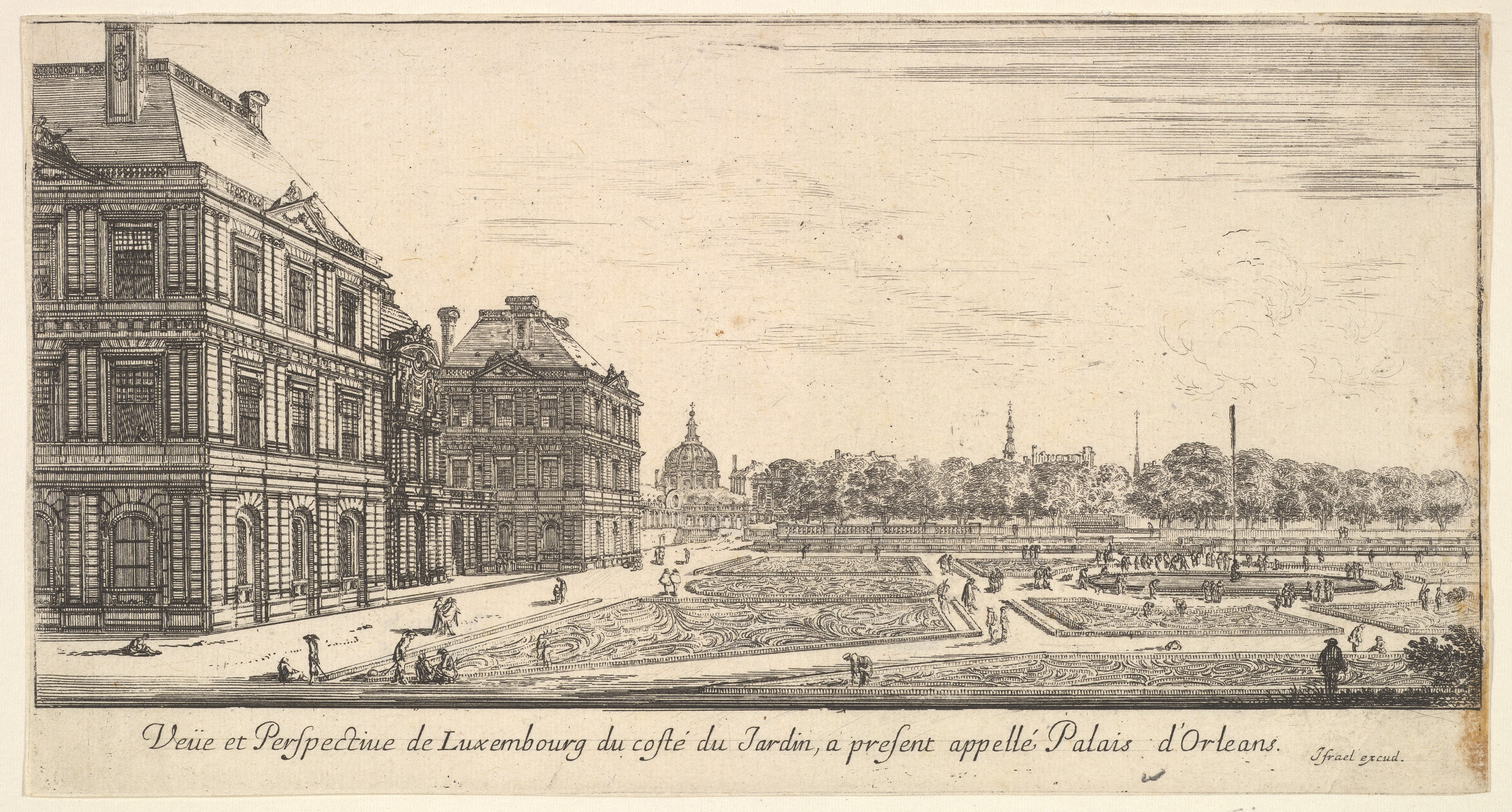 First published in 1649 in a set of 11 prints depicting the Palais d'Orléans (Luxembourg Palace) in Paris (see Faucheux)